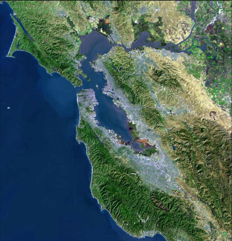 Bay Area Satellite MAP from USGS